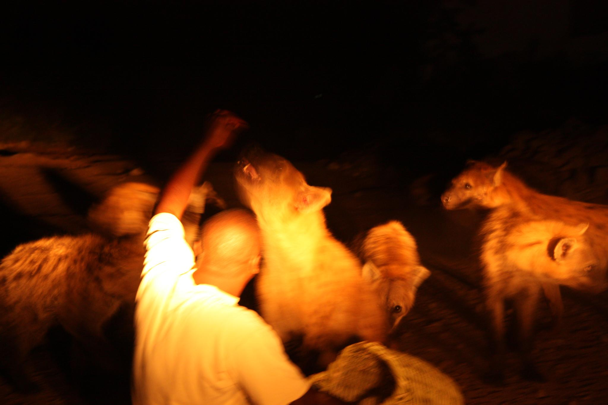 Nightly feeding of the hyenas, Harar, Ethiopia.